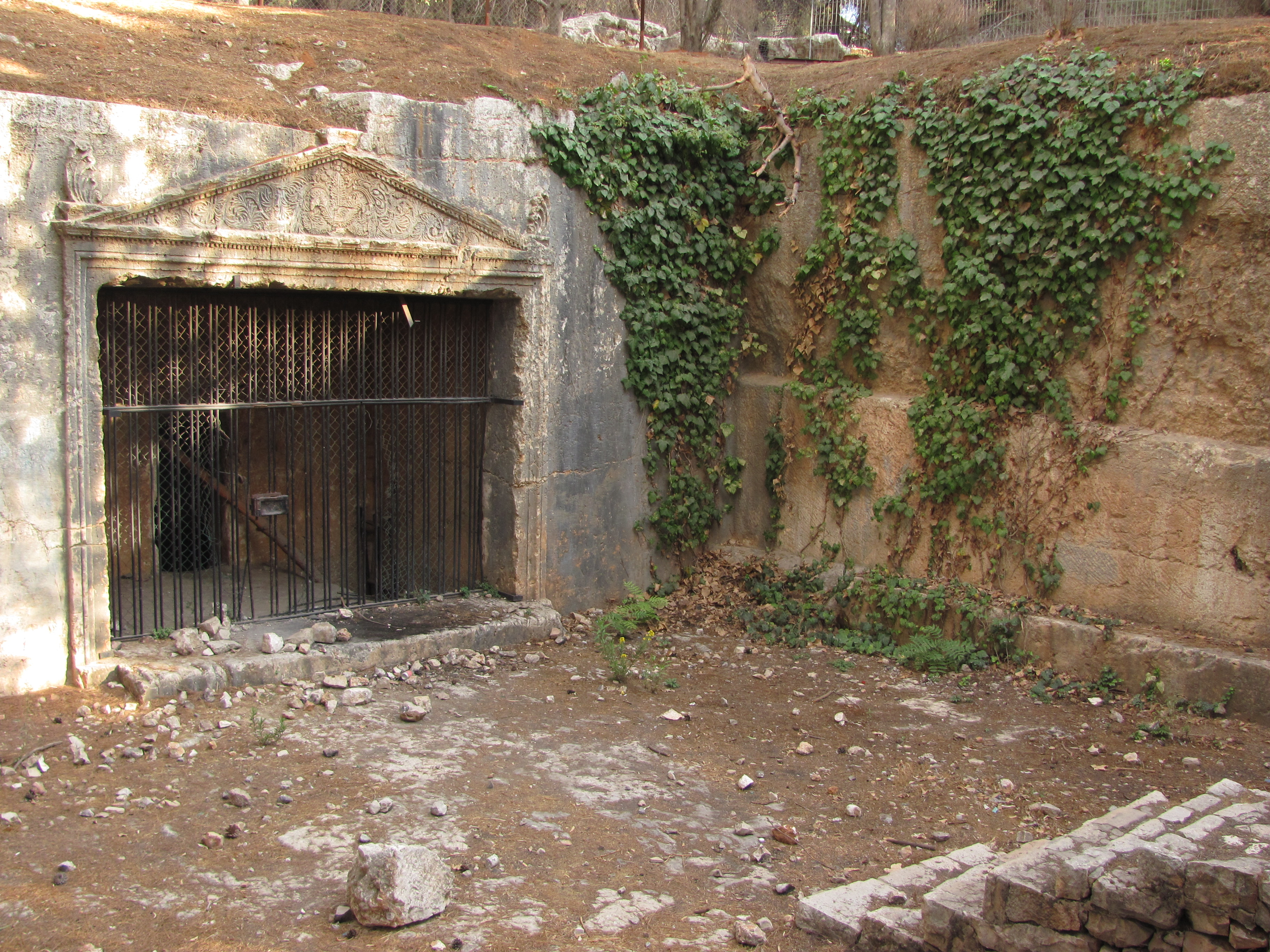 Forecourt and entrance to the Tombs of the Sanhedrin in Sanhedria Park, Jerusalem.